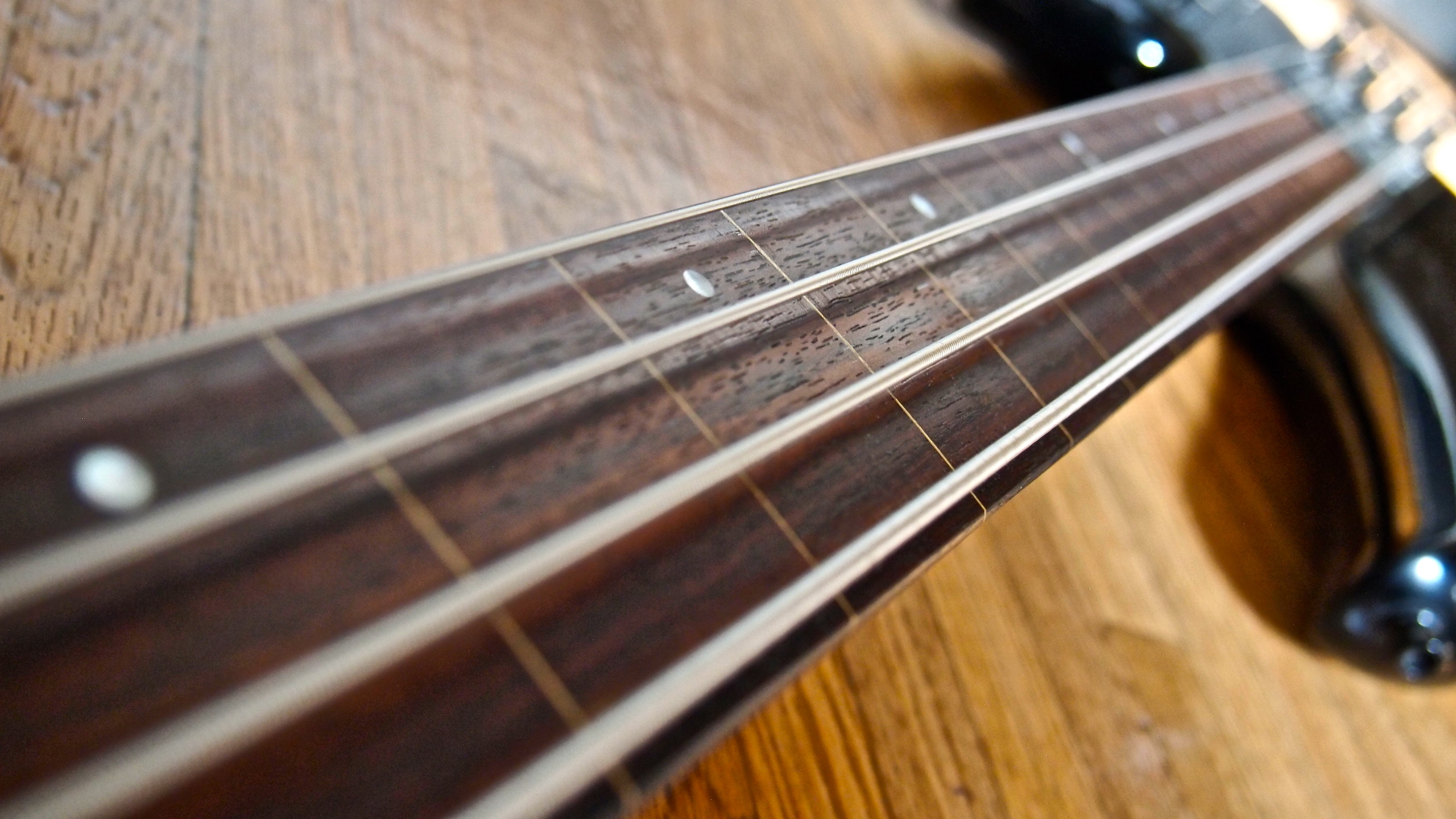 LightWave Saber SL Fretless Bass